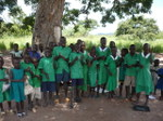 School children under tree — in Lainya County of Central Equatoria state. In the central Equatoria region of South Sudan.